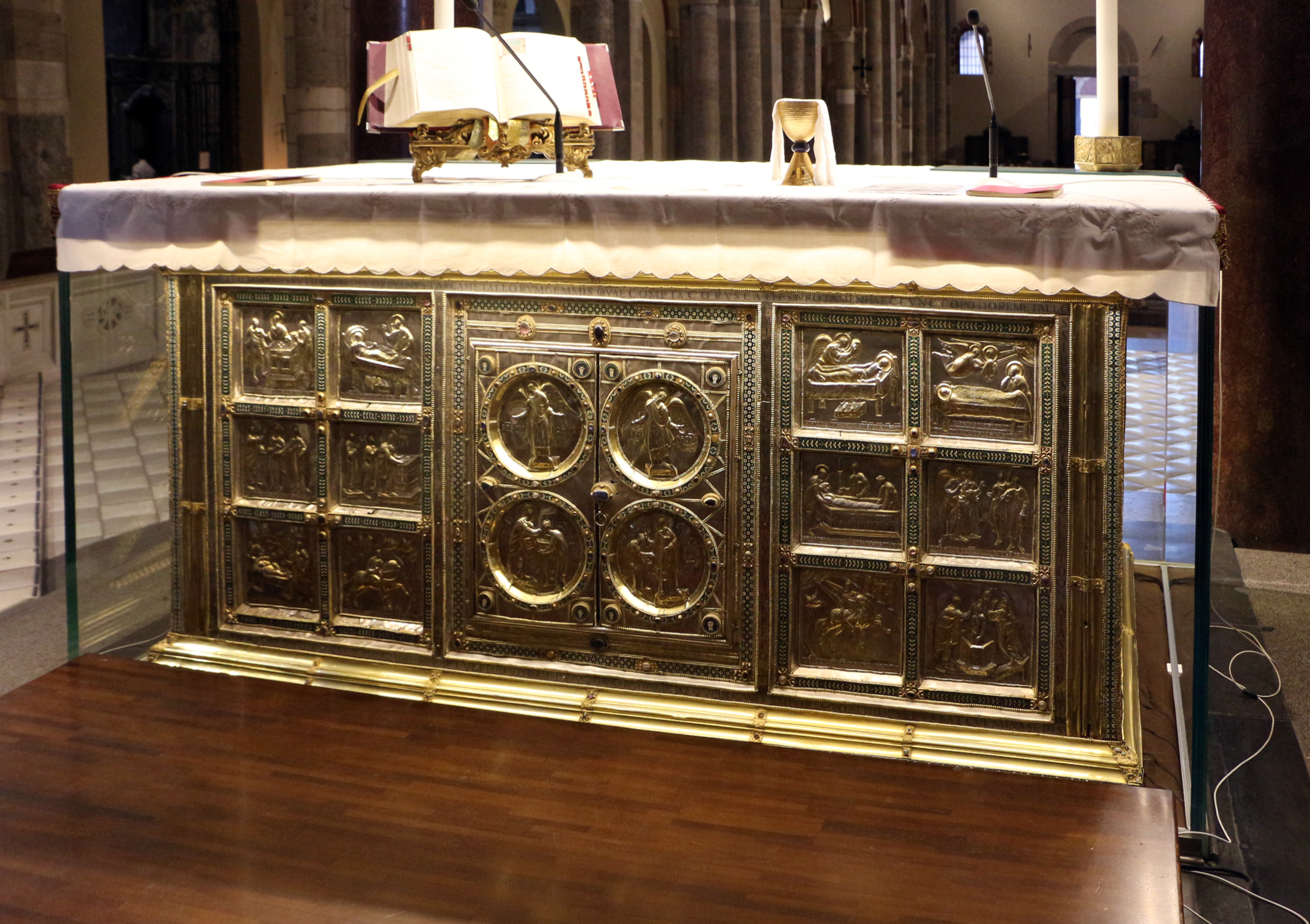 Sant'Ambrogio Altar